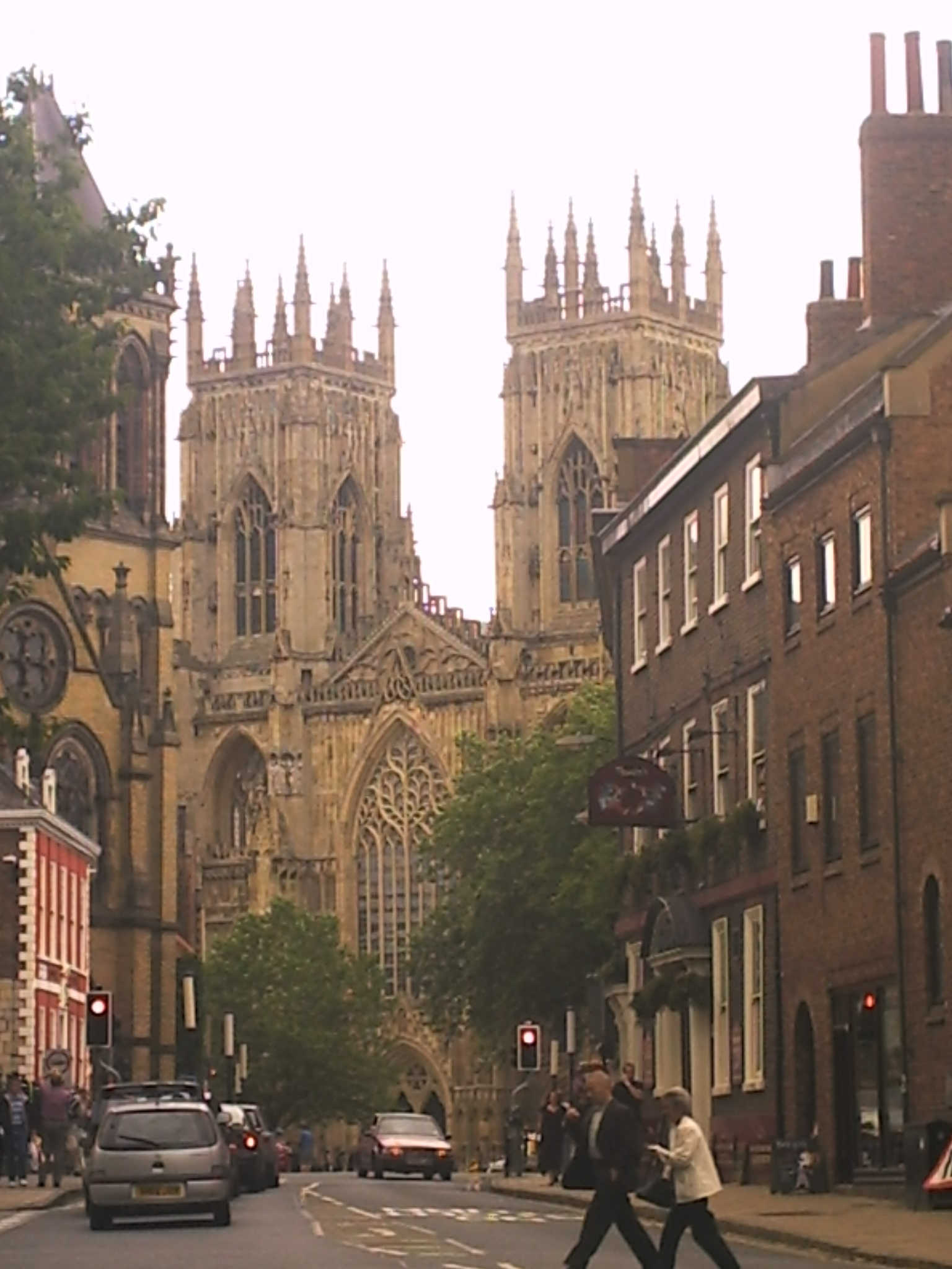 York Cathedral